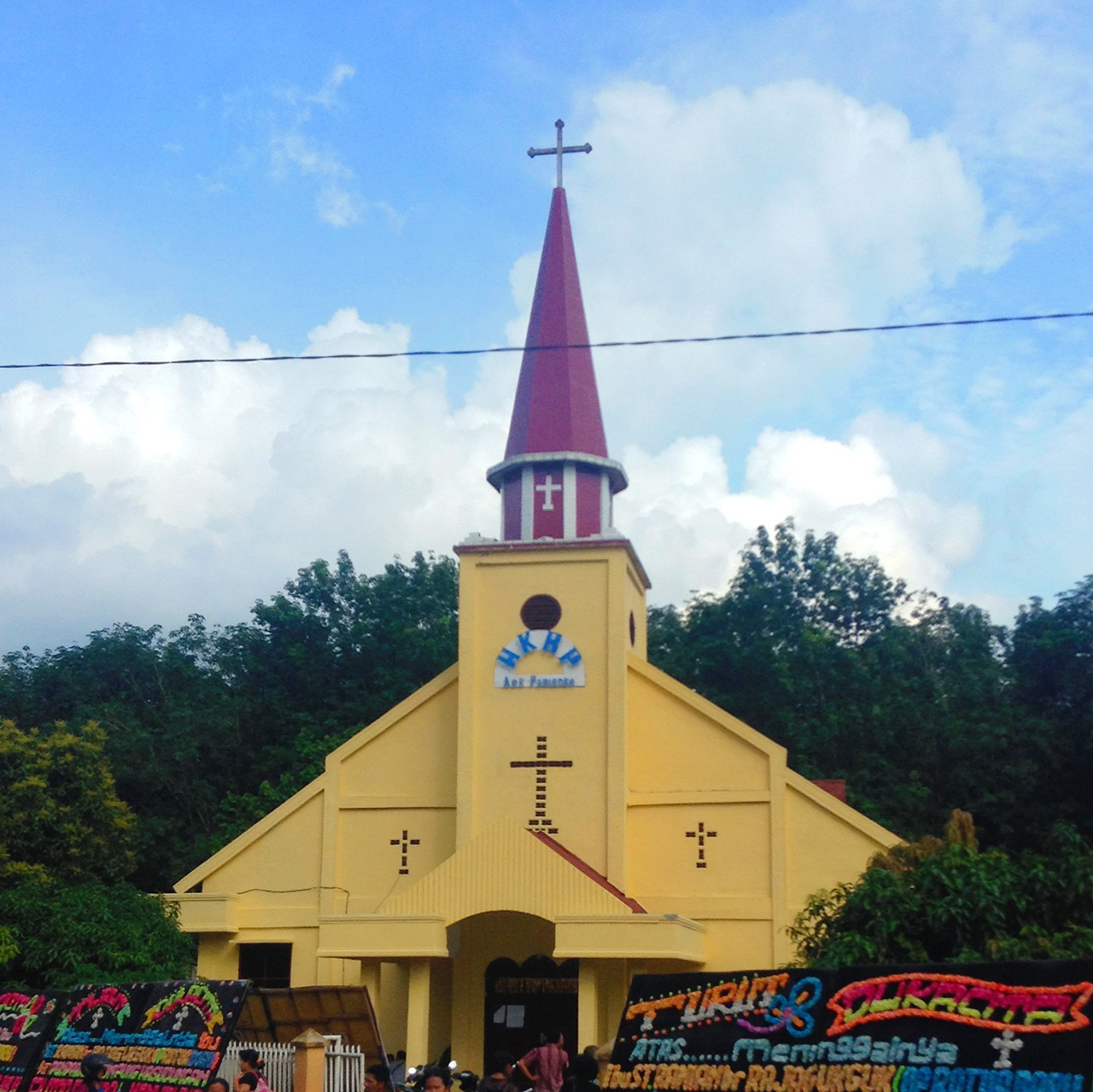 HKBP Aek Pamienke, Church in Aek Natas, North Labuhanbatu